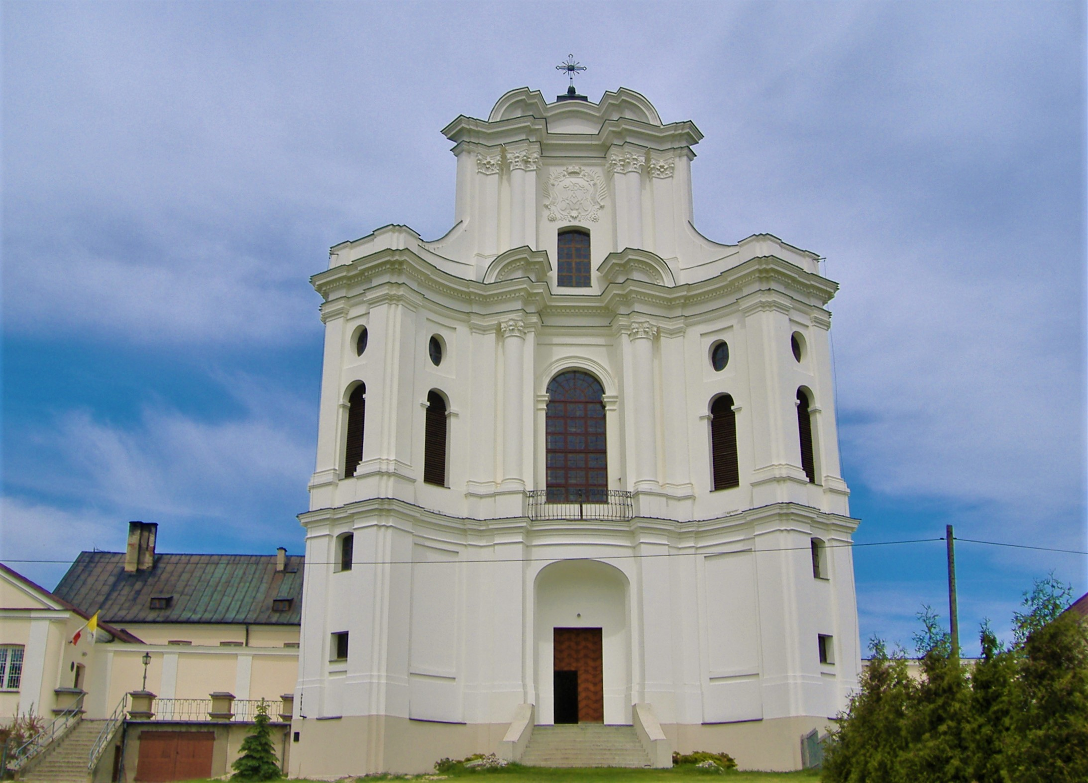 All Saints church in Drohiczyn, Poland.